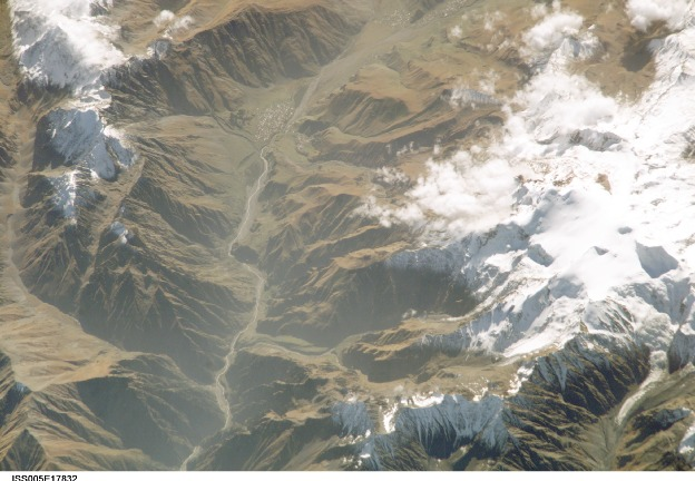 Georgian military road, town Kasbegi, Mount Kasbek, Greater Caucasus, Georgia (North to South)